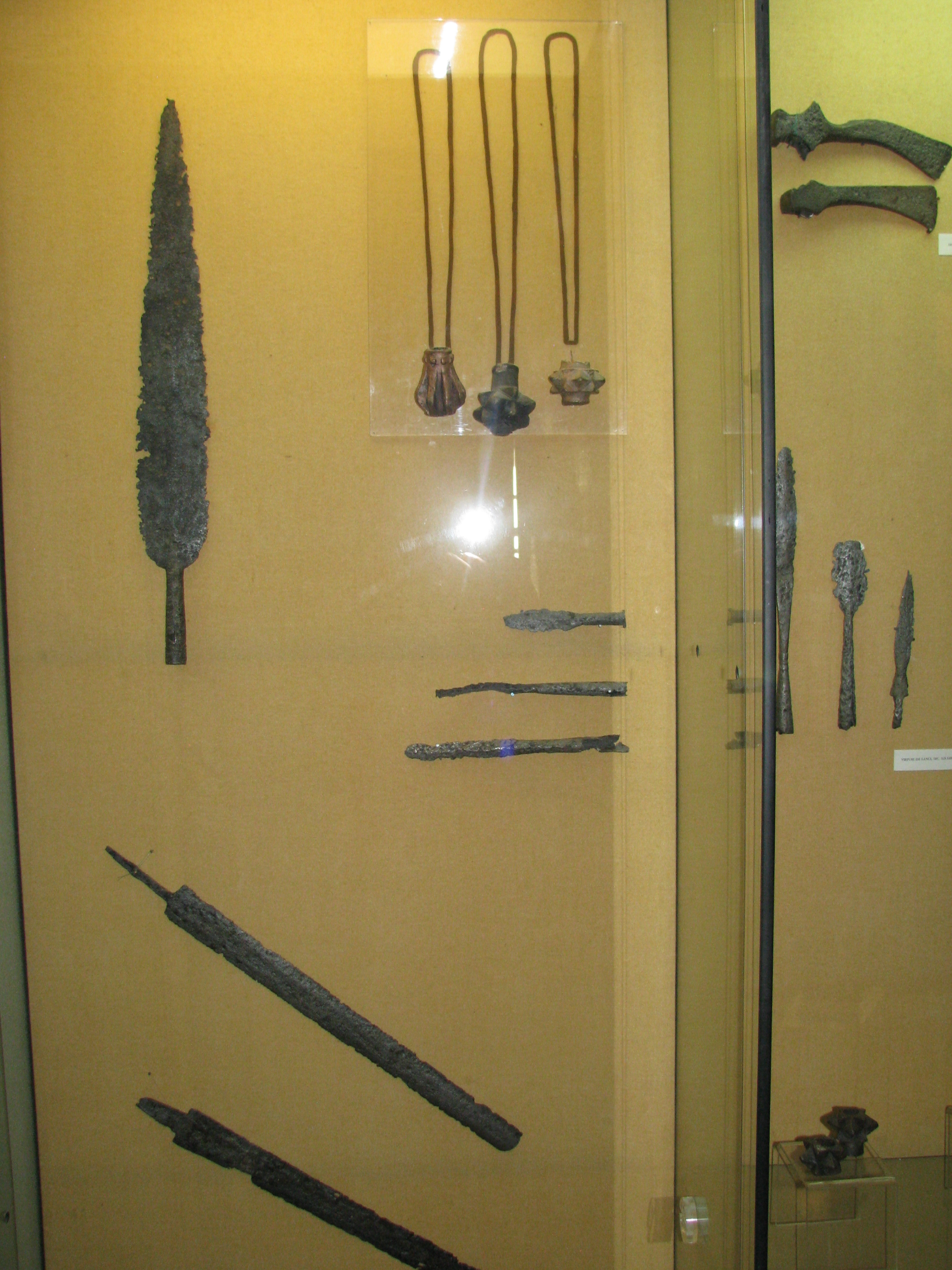 Alba Iulia National Museum of the Union 2011